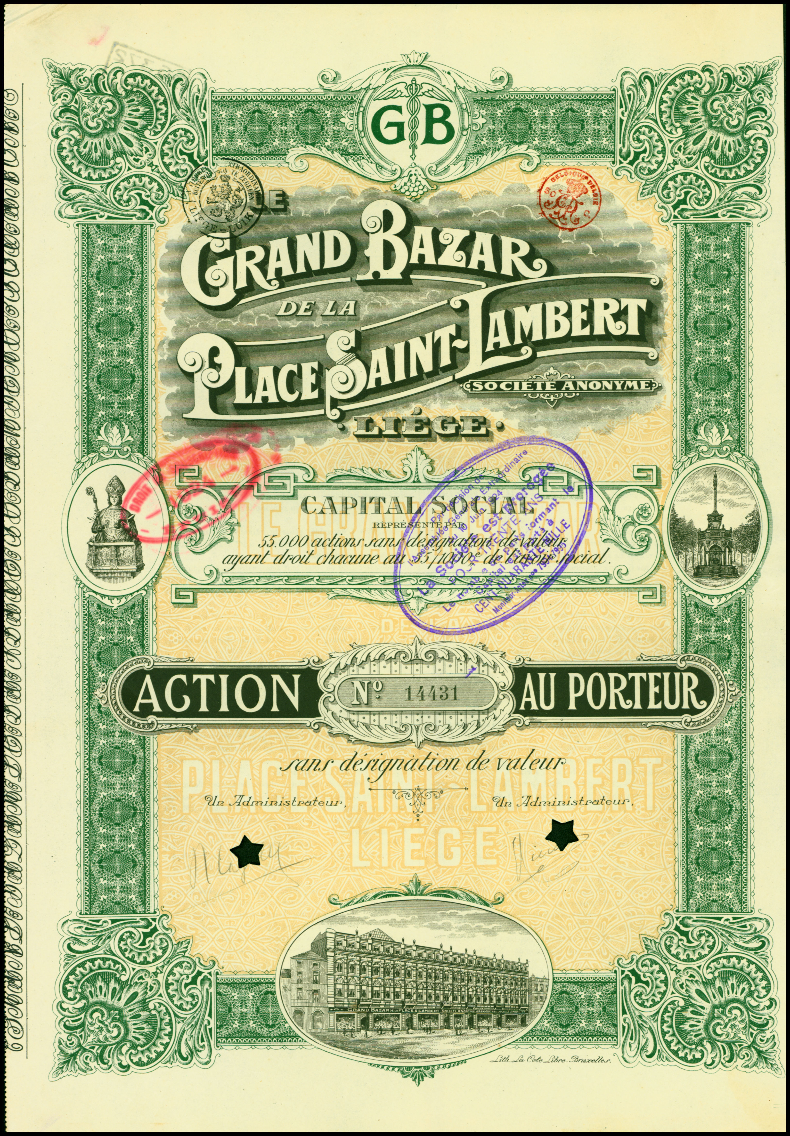 Share of the Grand Bazar de la Place Saint-Lambert SA, issued 9. July 1921